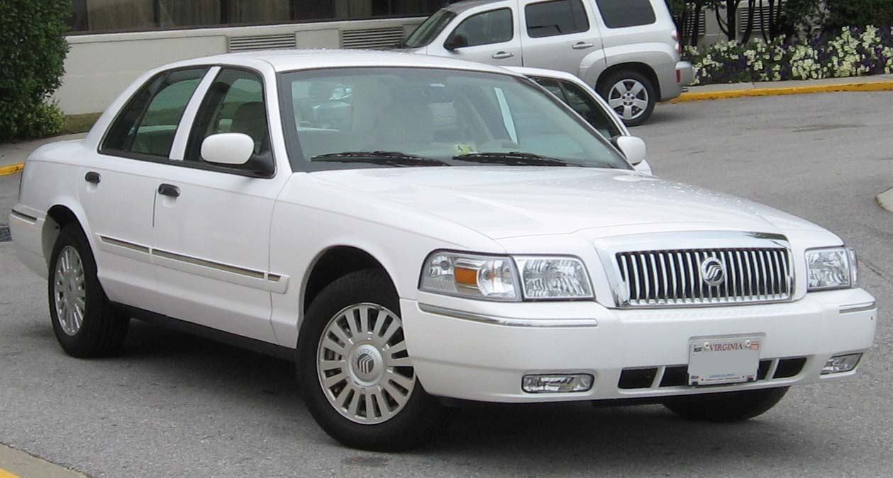 2006-2007 Mercury Grand Marquis photographed in College Park, Maryland, USA.